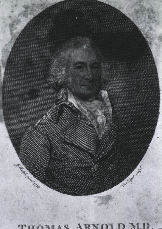 Thomas Arnold, M.D. Half-length, full face, in oval. HMD Prints & Photos, Portrait no. 260A.